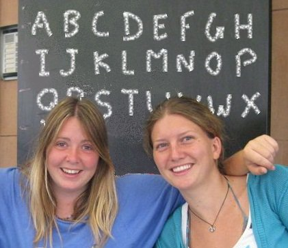 WildVenture Volunteers Teaching English in Mongolia